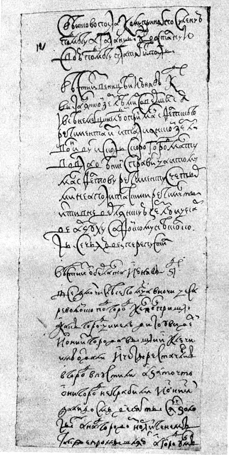 Russian handwritten newspaper of the year 1631